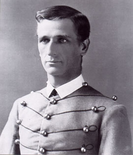 US Army, First Lieutenant Charles Bare Gatewood (1853 – 1896). Gatewood persuaded Geronimo to surrender to the army during the American Indian Wars.